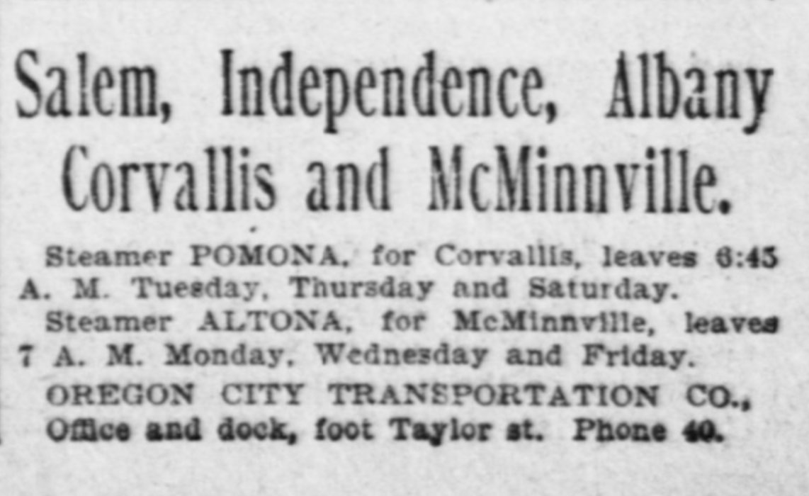 Advertisement placed in the Morning Oregonian on January 6, 1902, by the Oregon City Transportation Company, advertising steamer service from Portland to points on the Willamette and Yamhill rivers.